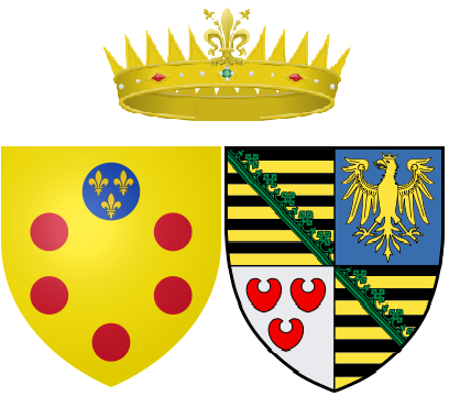 Arms of Anna Maria Franziska of Saxe-Lauenburg as Grand Duchess of Tuscany